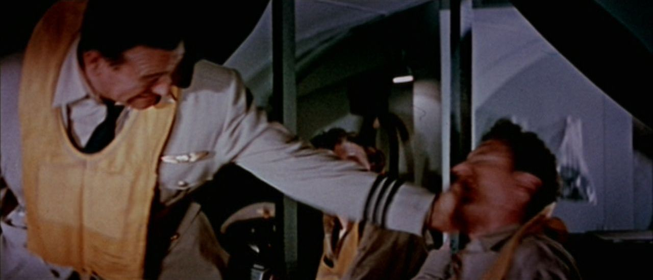 Screenshot showing John Wayne slapping Robert Stack from the film The High and the Mighty.